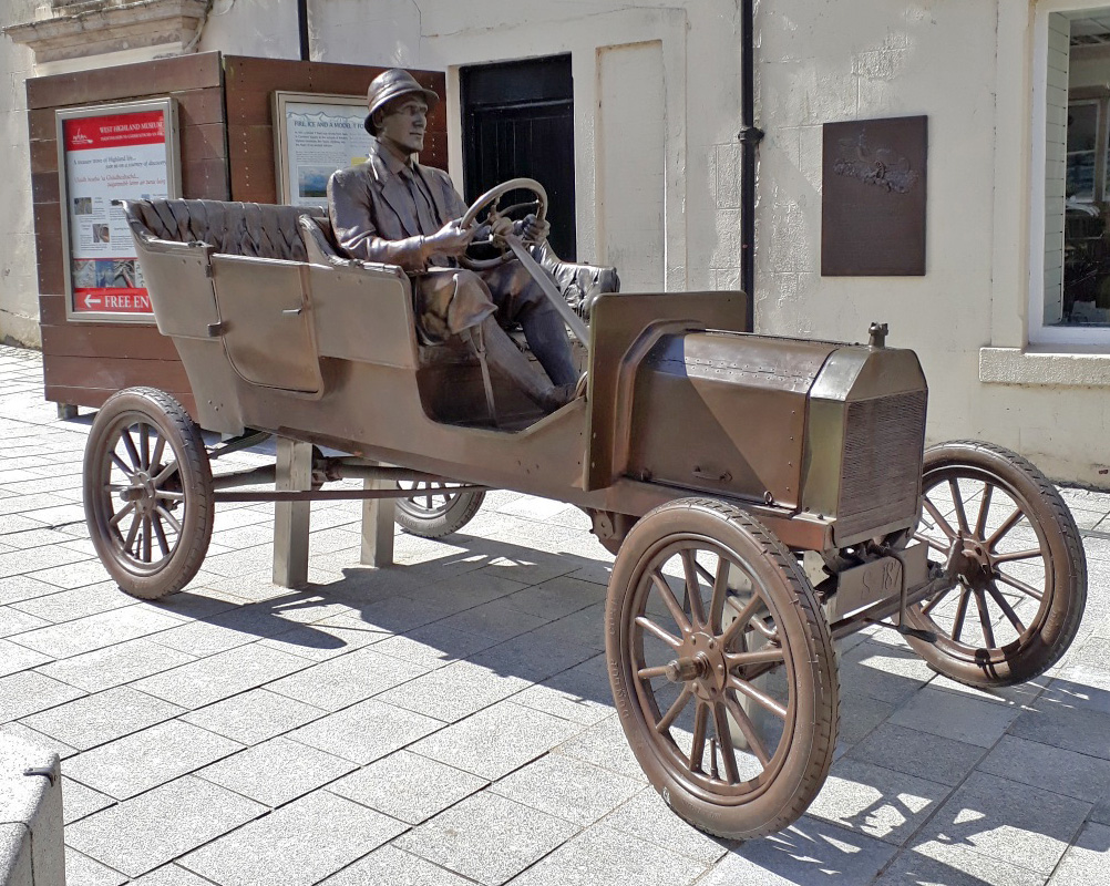 Outside The West Highland Museum stands a full size sculpture of Henry Alexander in his Model T Ford that climbed Ben Nevis in May 1911, The museum has a video show of the event.